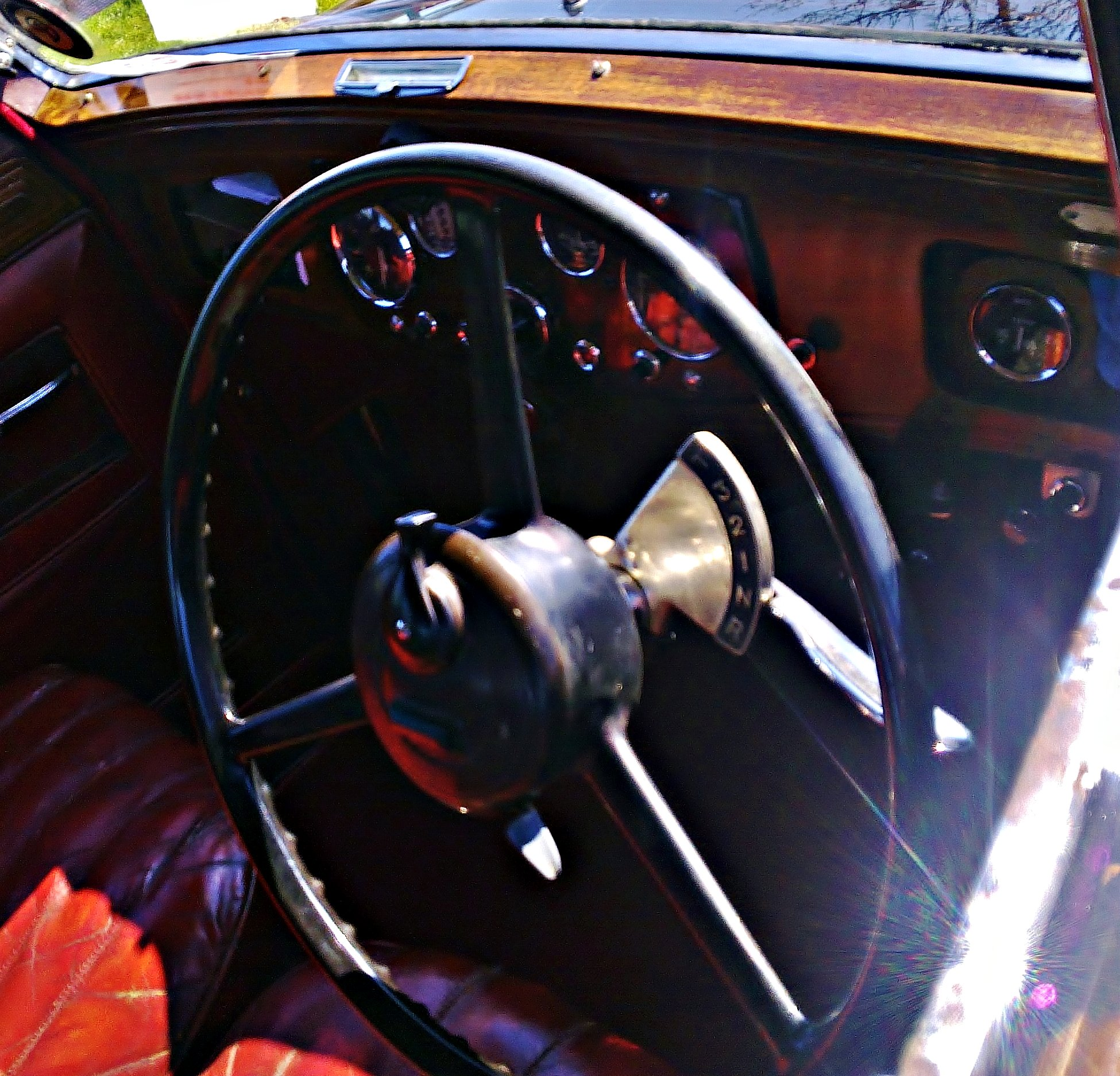 Daimler Fifteen Interior BCD 554 Date of First Registration 3 January 1935 Year of Manufacture 1934